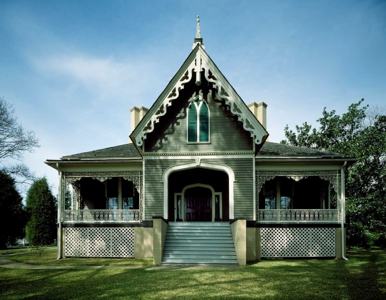 Manship House, built before, during, and after the Civil War for Jackson Mayor Charles Henry Manship, Jackson, Mississippi